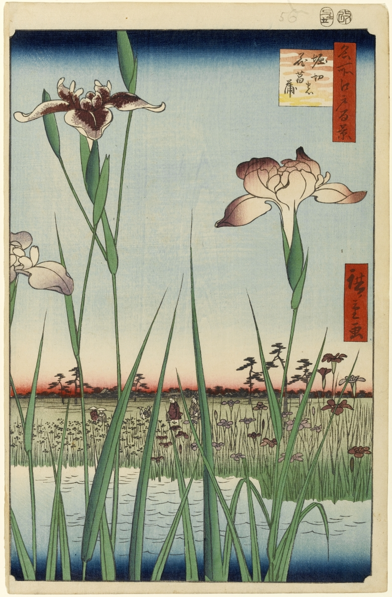 Part of the series One Hundred Famous Views of Edo, no. 064, part 2: Summer.